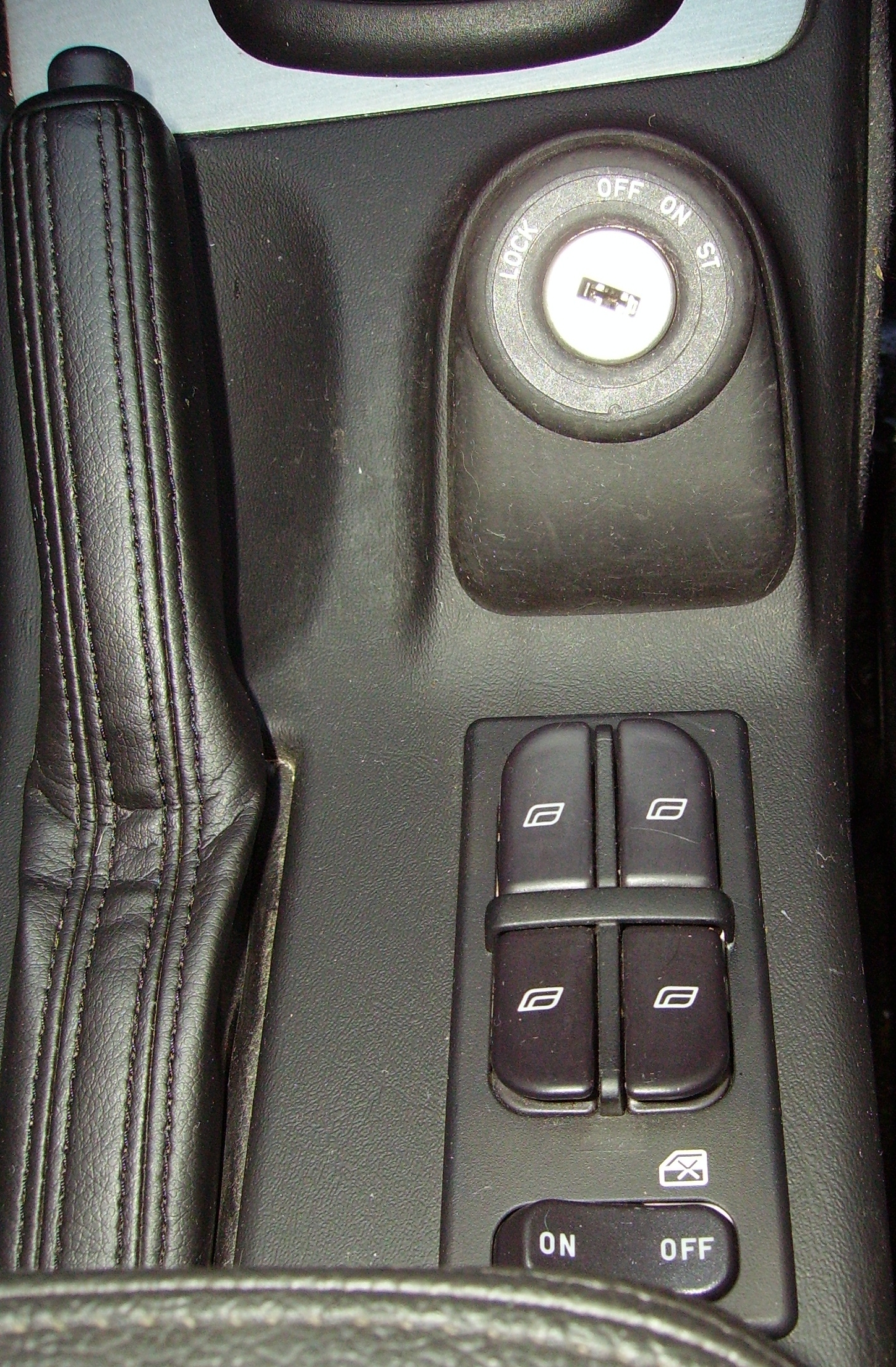 Electric window controls (Saab 9-5)